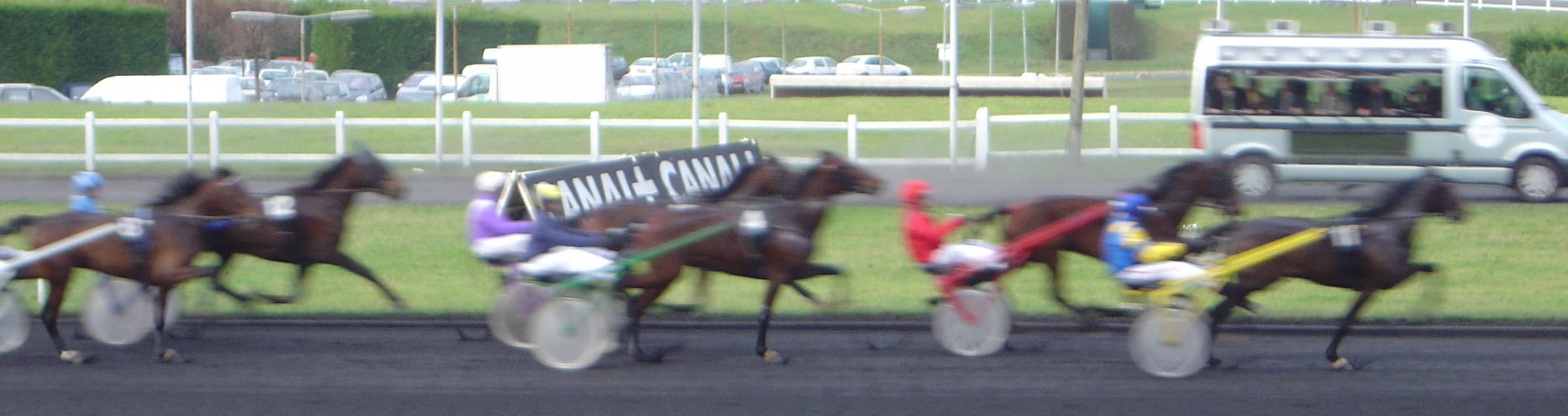 trot racing in Vincennes, France